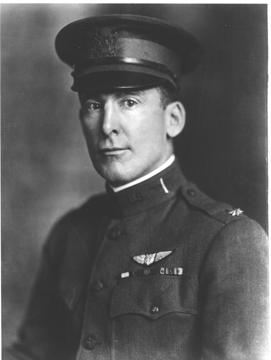 Photo of Frank Lahm (Catalog #: BIOL00508).